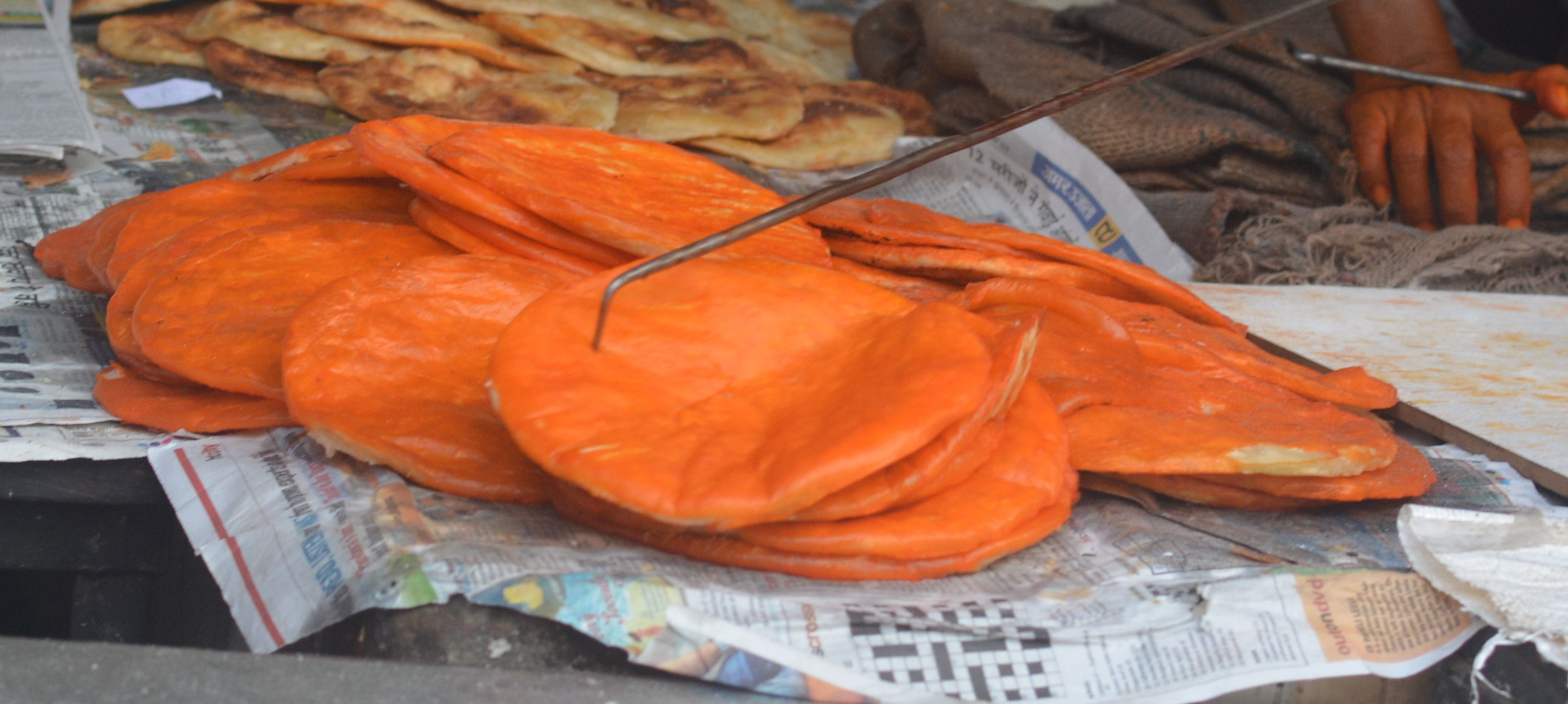 Sheermal at Mubeen's , Lucknow